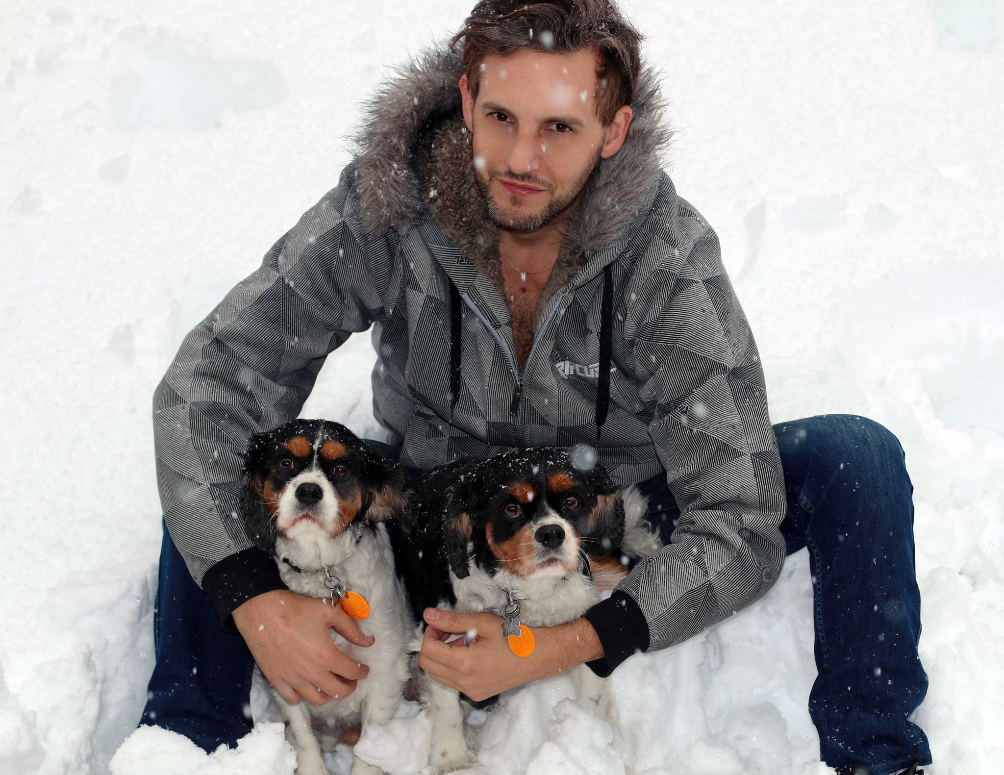 Jason Bellini with his cavaliers, Bugsy and Theo